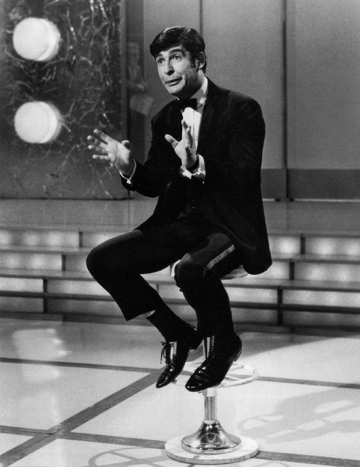 Photo of Irish Comedian Dave Allen as the host of a CBS variety program Showtime. The program appears to have been a "summer replacement" show-aired during the summer months when the network's regularly scheduled shows were on hiatus.